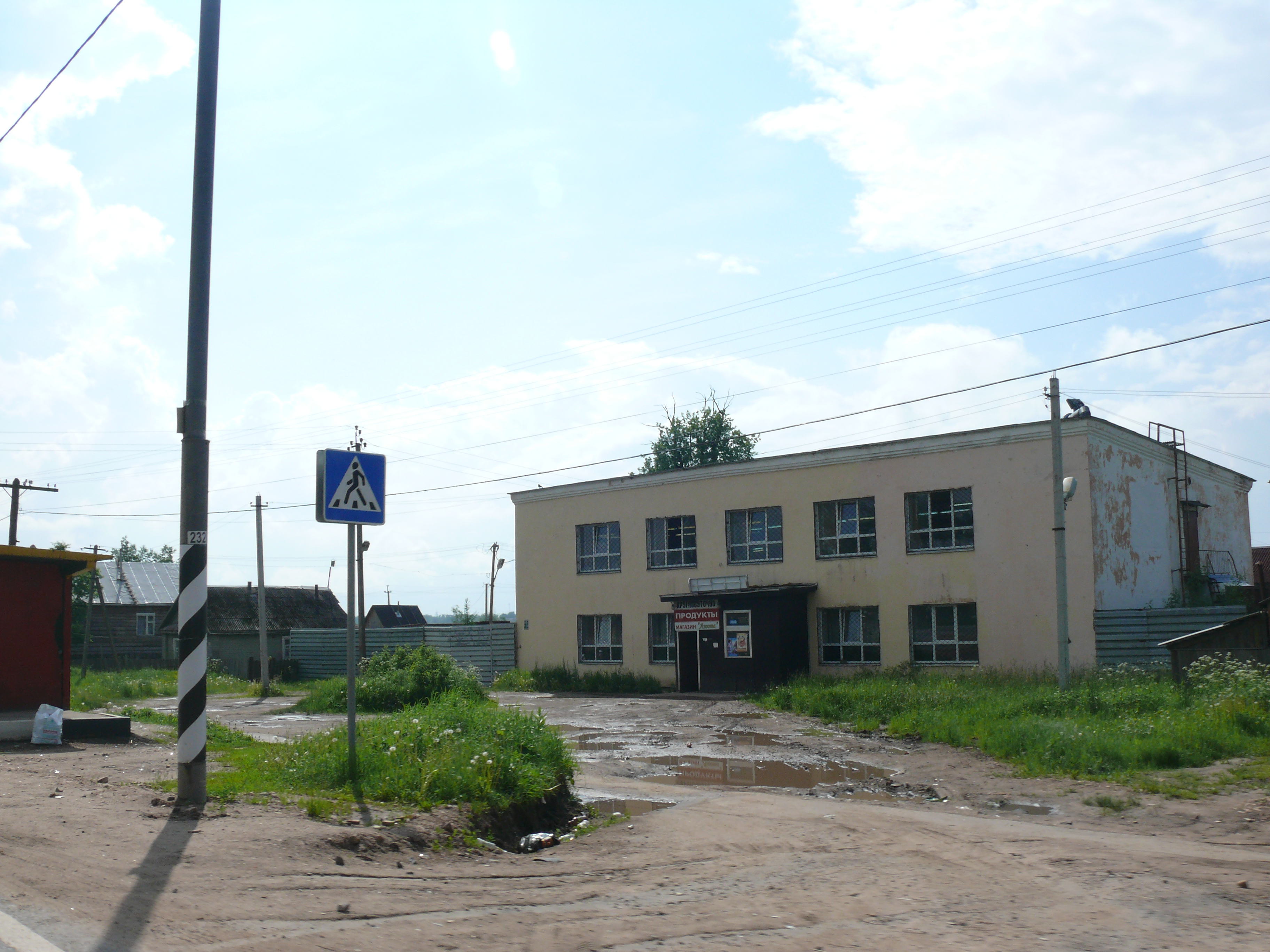 Trubichino village. Novgorodsky district, Novgorod oblast, Russia